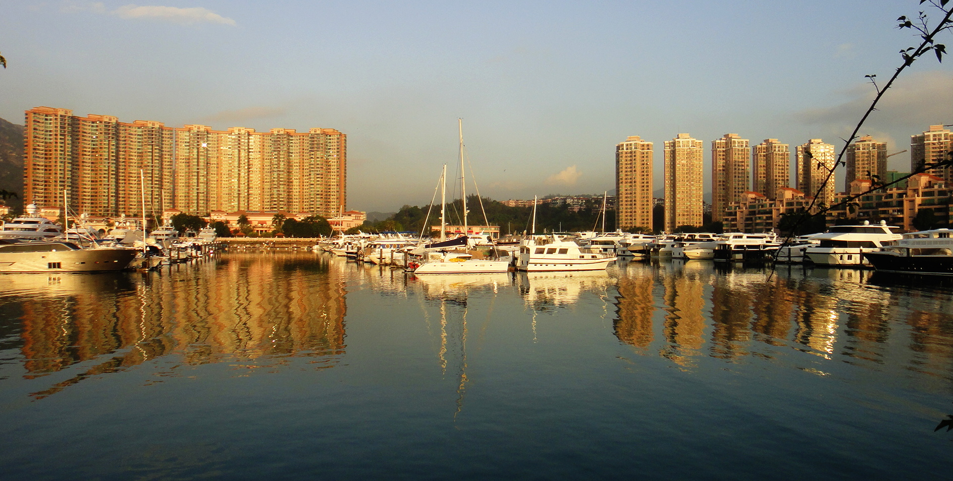 Hong Kong Gold Coast Boat Houses and Apartments